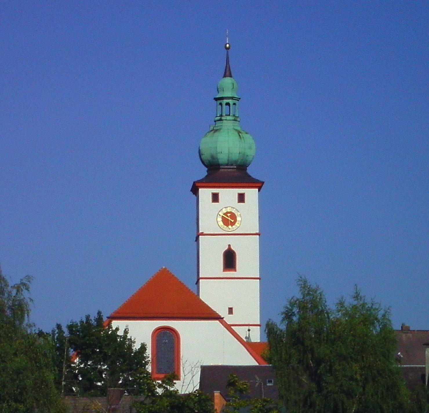 Church in Tirschenreuth